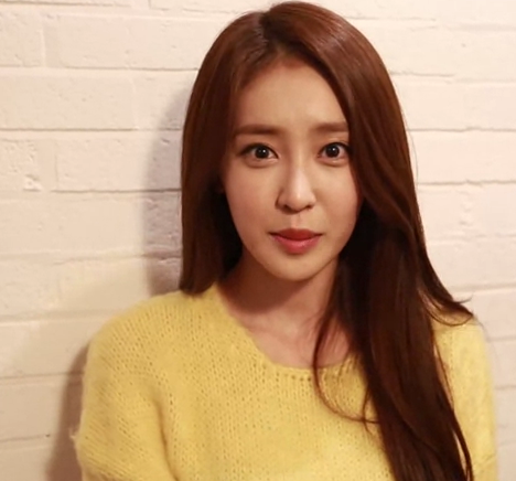 Lee Seul-bi a.k.a. Ga Won, a South Korean actress